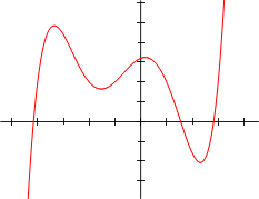 Polynomial of degree 5: Created by Enoch Lau. As a courtesy, please let me know if you alter this image or this image description page.